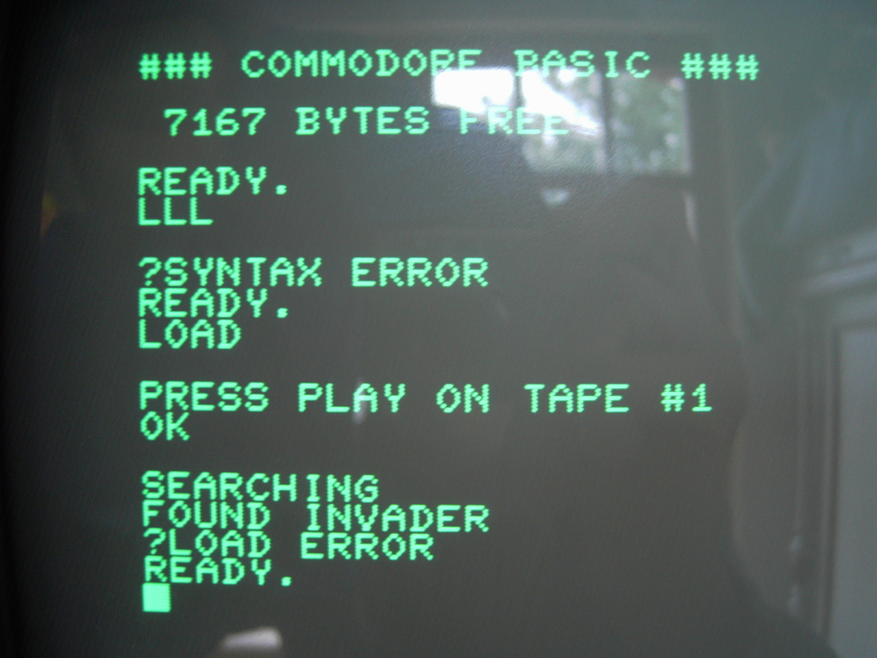 This is a real "screenshot" from a Commodore PET 2001. It doesn't have to boot and -- as you see -- the BASIC interpreter only takes about 800bytes in RAM ;-) The "L" key doesn't work good, so it took two runs to make it searching a program from the data tape. Unfortunately it still doesn't fully work again, so it won't load the world's first Space Invader implementation :-/